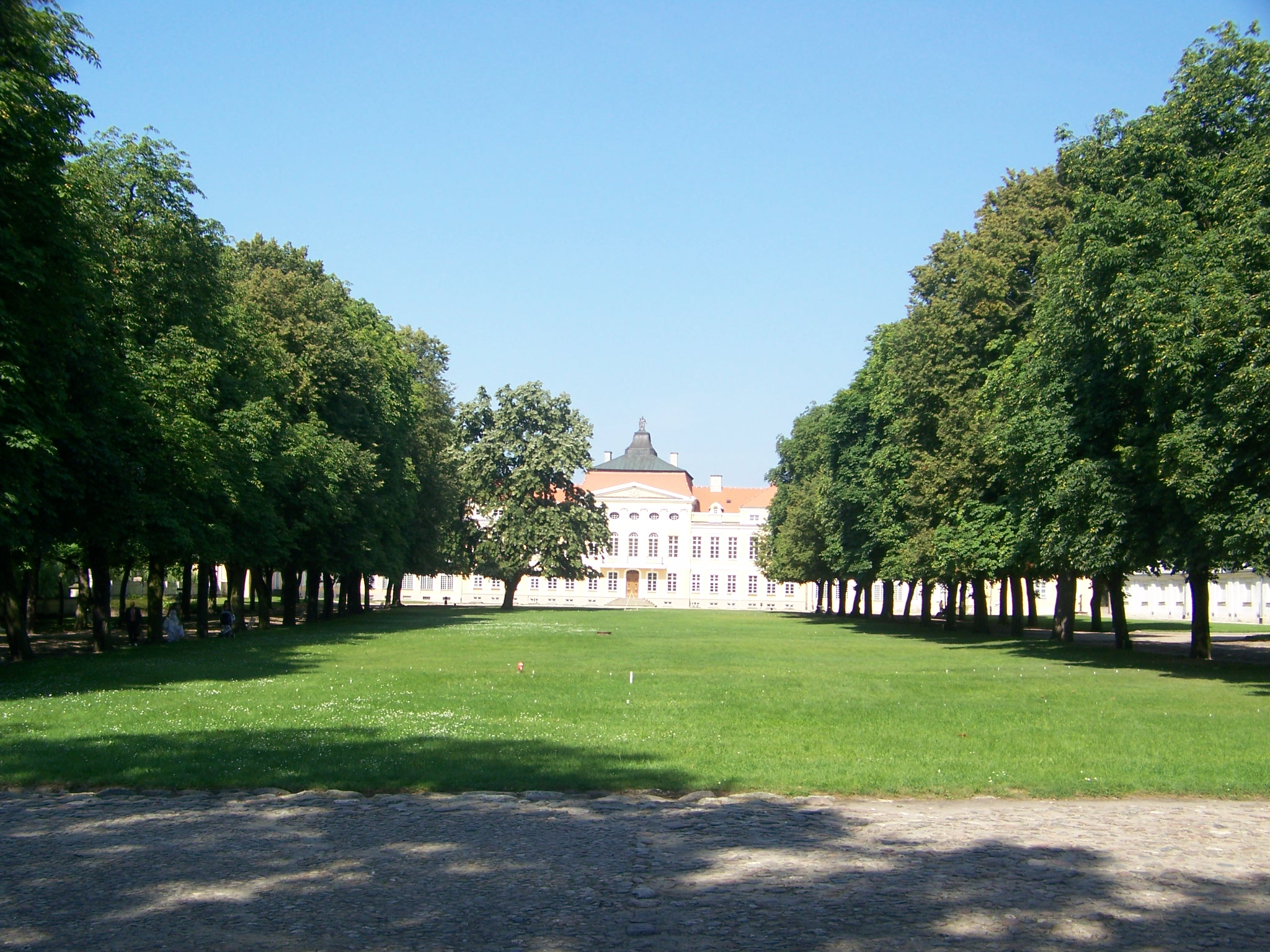 Palace in Rogalin, Poland